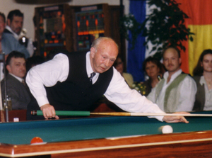 German carom billiards player